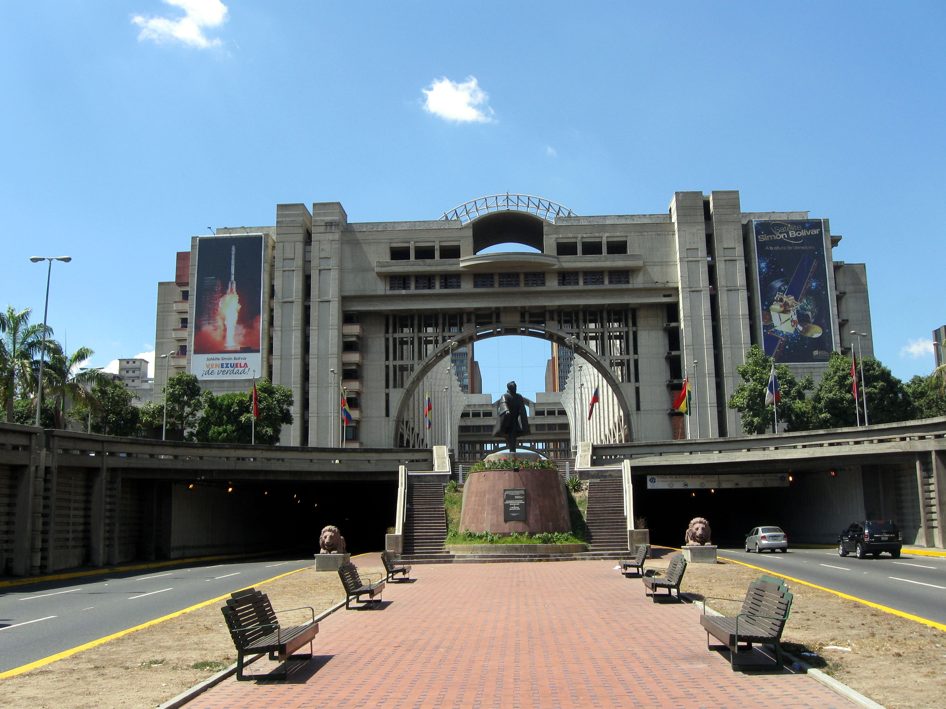 Simón Bolívar statue on Bolívar Avenue.